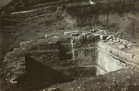 Bulgaria